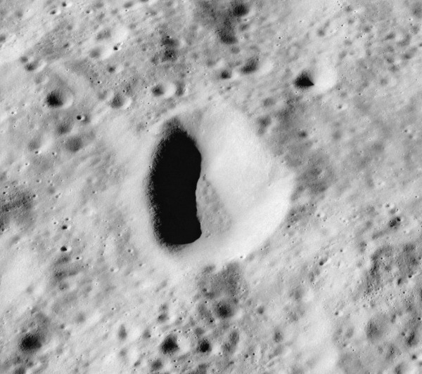 Oblique view of Rutherford, facing north, on the far side of the moon. Altitude 112 km, sun elevation 21 deg.